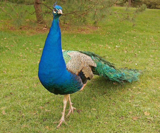 Peacock, Kew Gardens. Kew Gardens are famed for the resident Golden Pheasants (see 788789), but this Peacock, whilst not so unusual, is equally exotic.